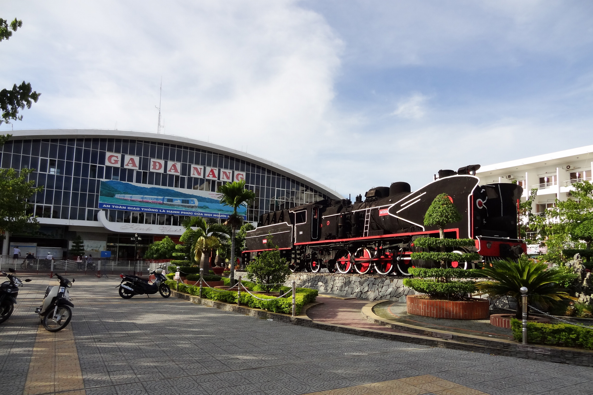 In front of Da Nang Railway Station, Vietnam.